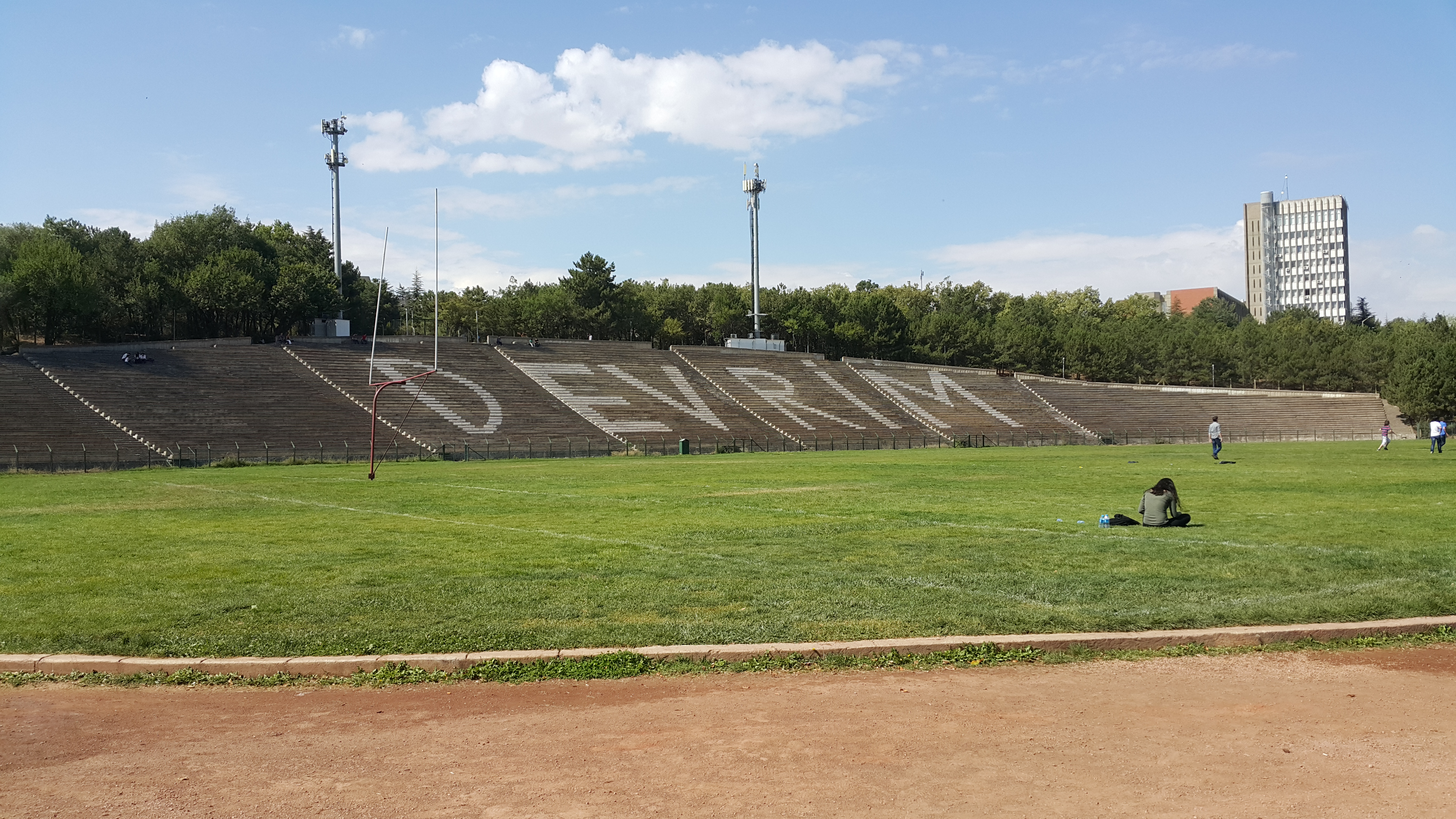 METU Devrim Stadium